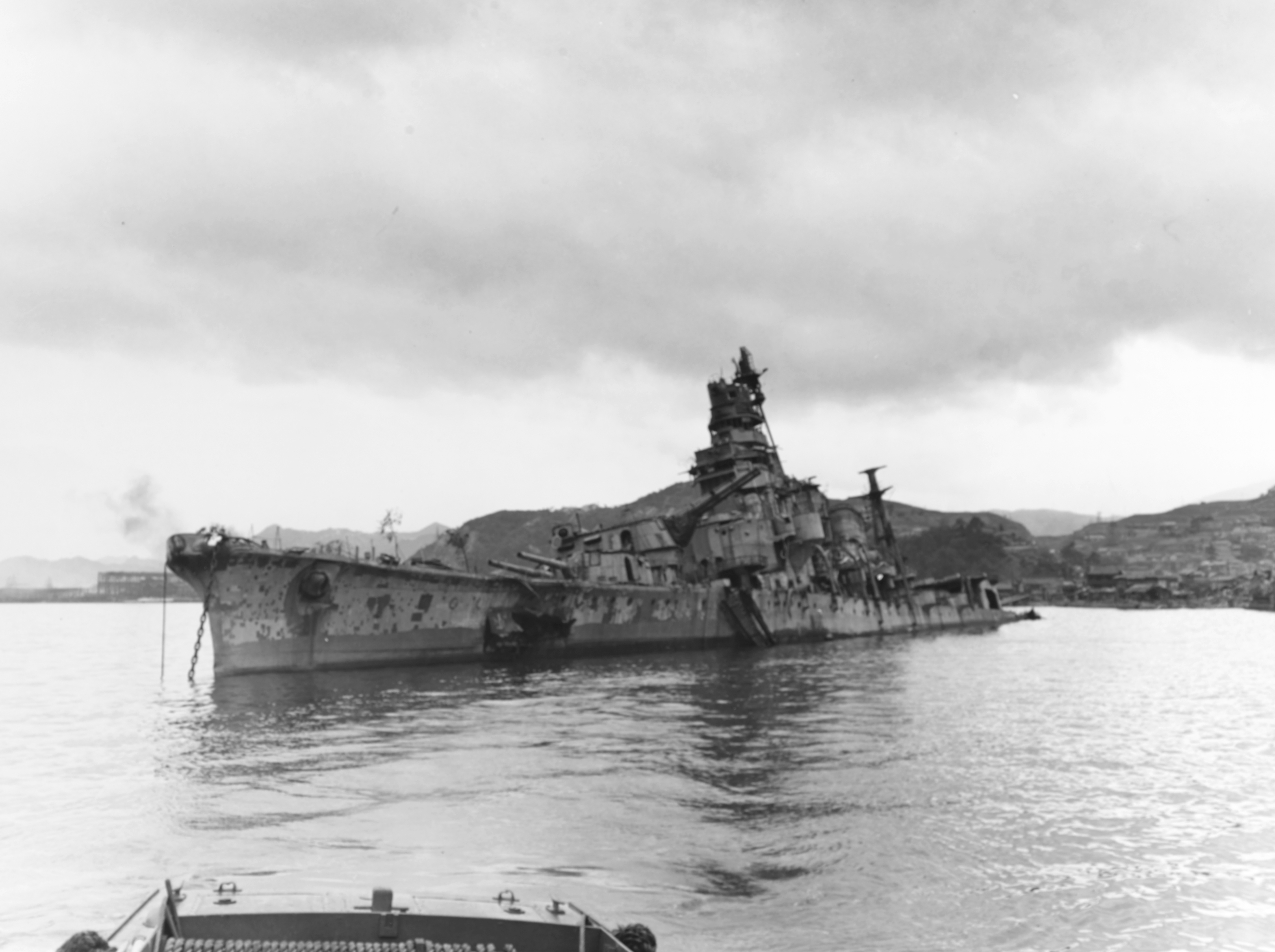 Japanese heavy cruiser Aoba sunk at Kure, Japan, 9 October 1945. She had been hit by air attacks on 24 and 28 July 1945, resulting in her loss. Note the large hole in her port side shell plating, forward, caused by a 227 kg (500 lbs) bomb that penetrated her forecastle during the 24 July attack by U.S. Navy carrier aircraft.